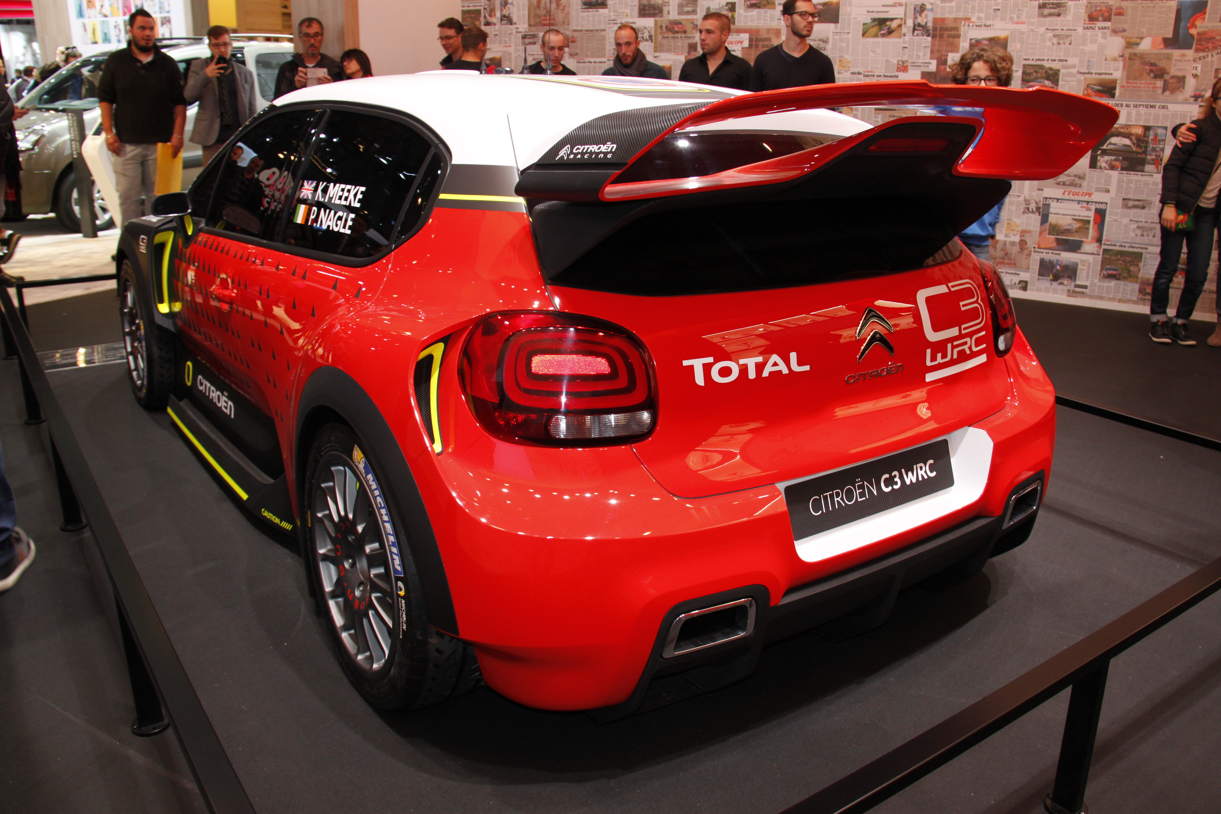 Citroën C3 WRC at the 2016 Paris Motor Show